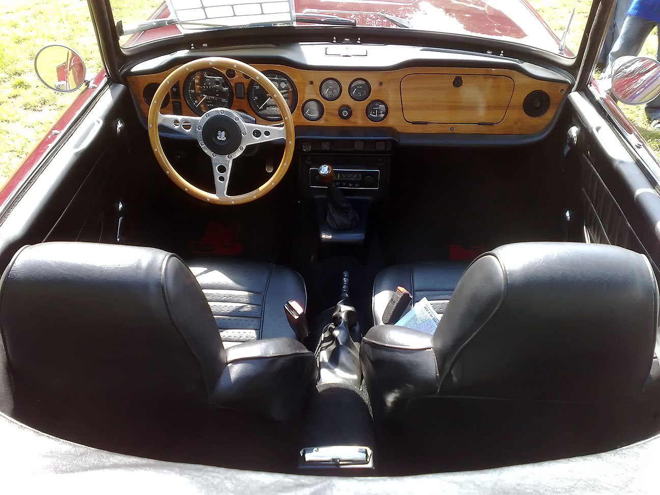 Leyland/Triumph TR6